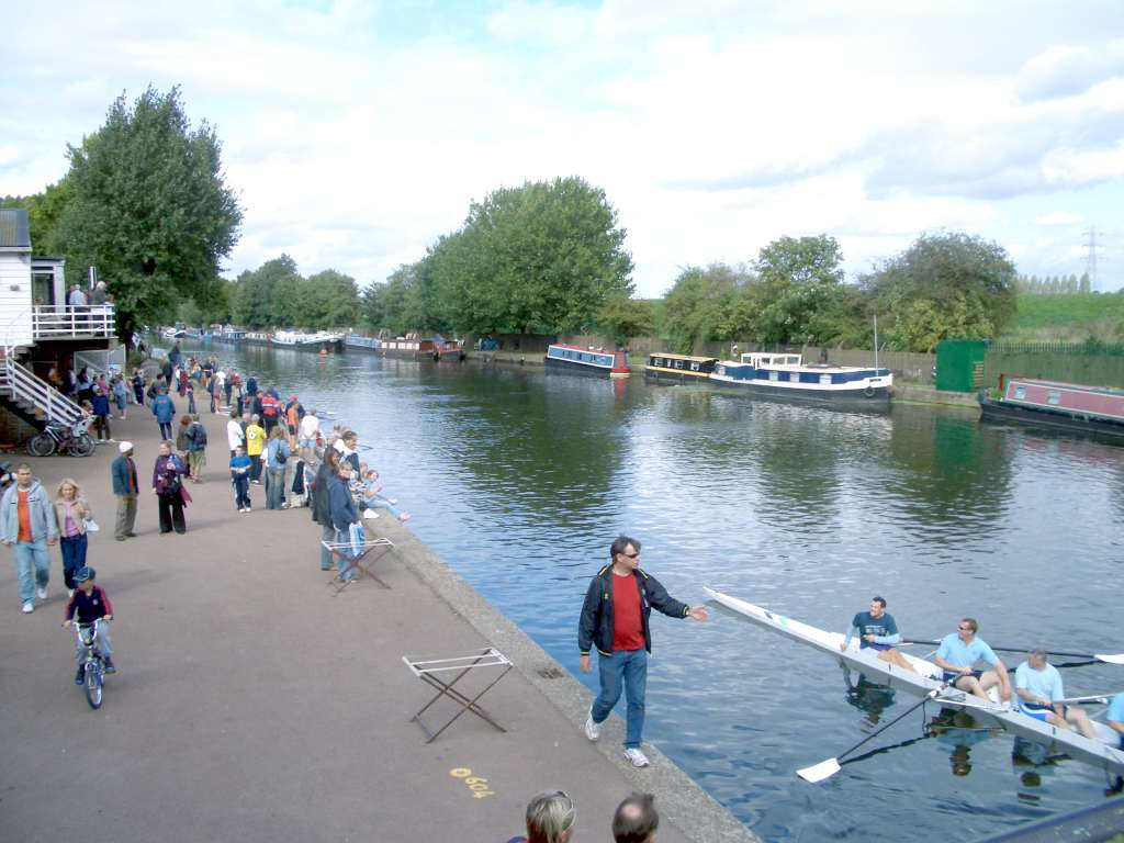 Boating on the River Lea, photo by Salimfadhley